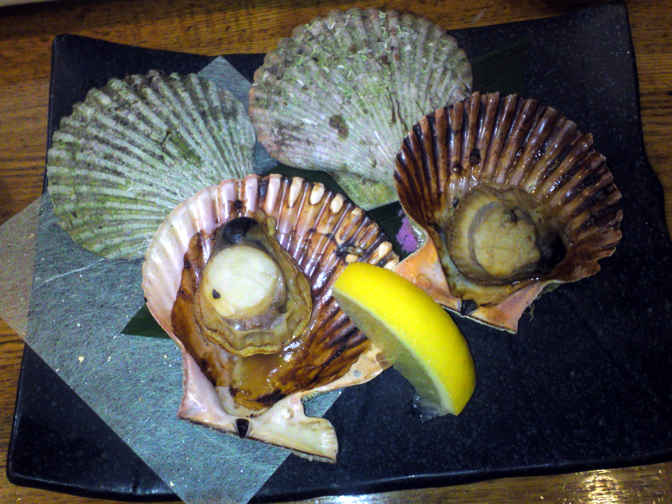 on Grill